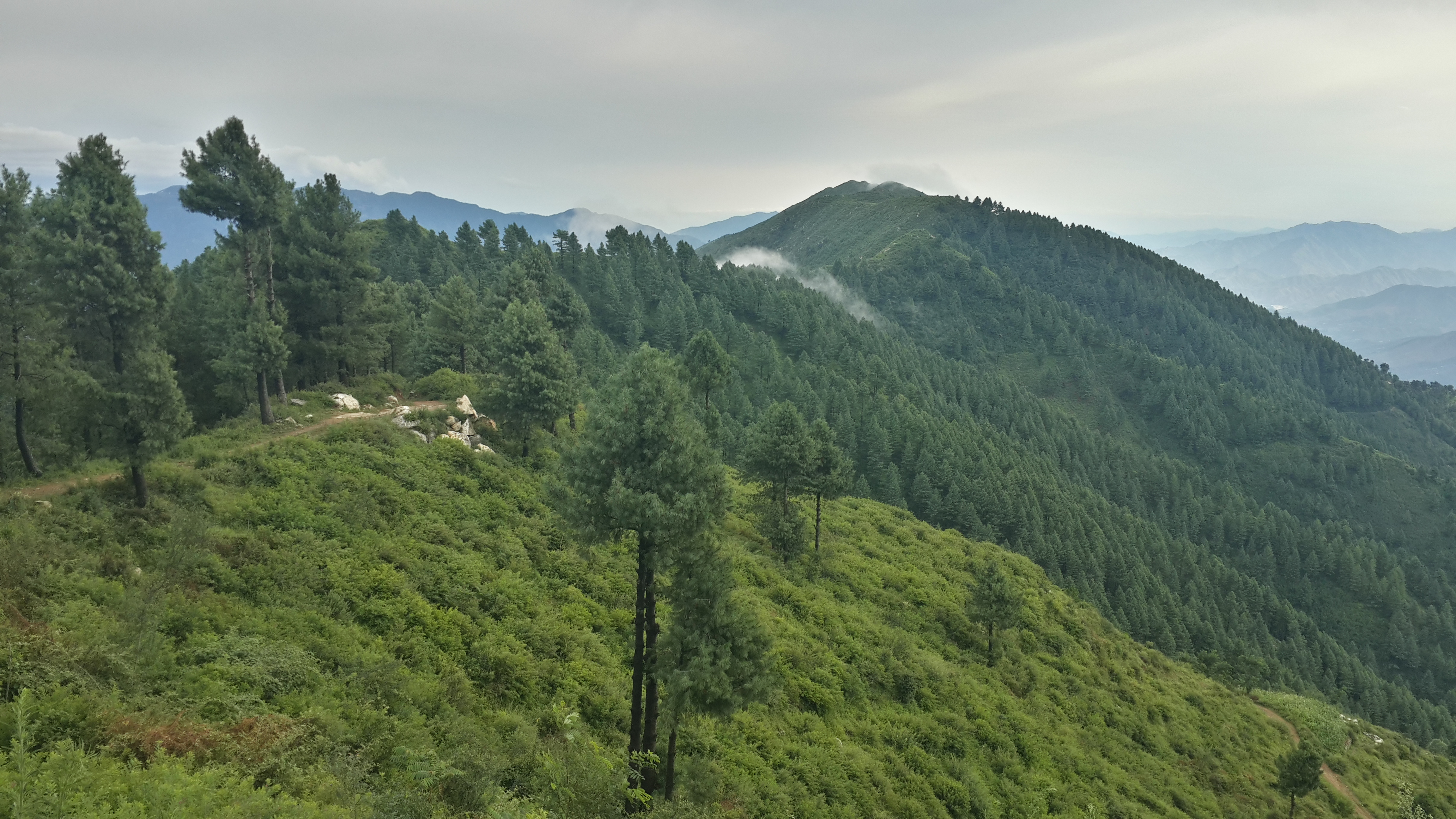 Lajbouk (Lajbook) area in Lower Dir District, KPK, Pakistan.